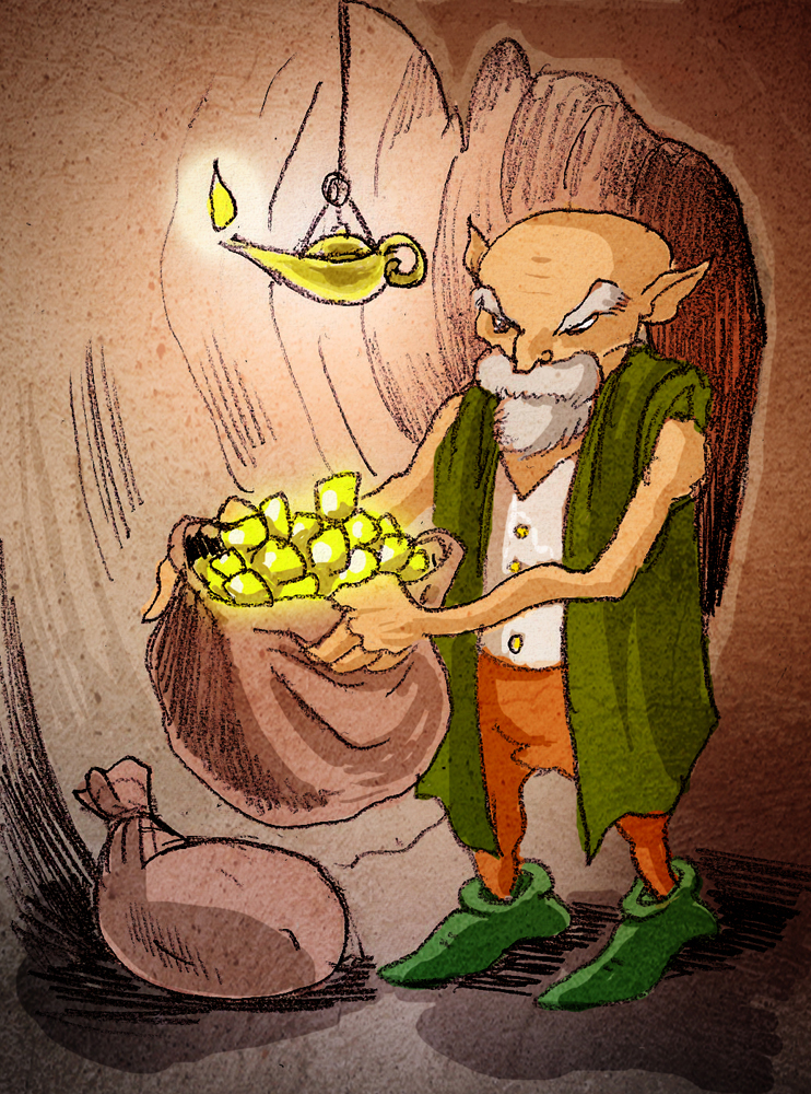 Illustration of a gnome by Philippe Semeria.